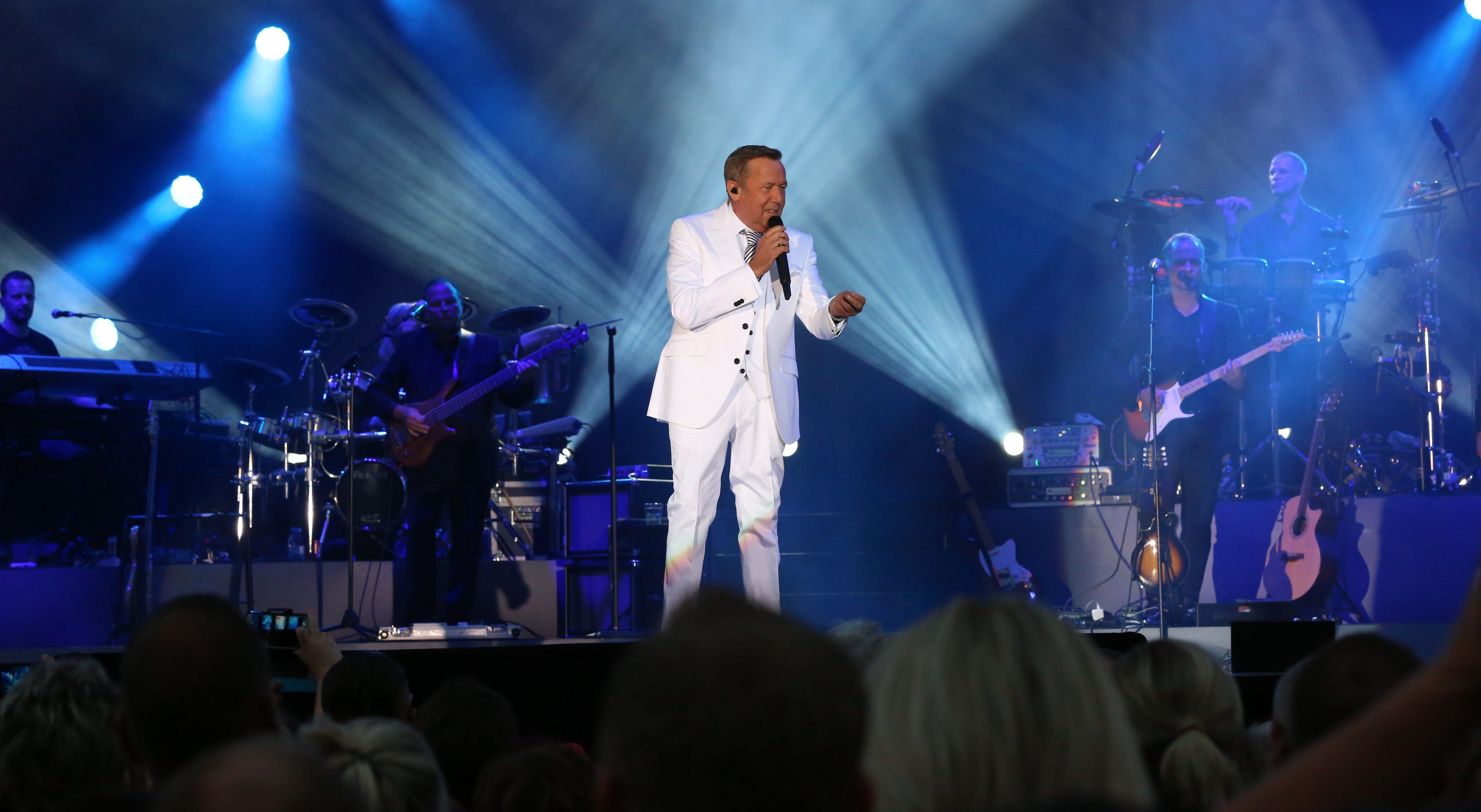 concert of Roland Kaiser in 2017 at the Elbufer in Dresden